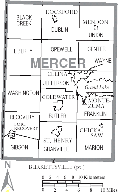 Map of Mercer County, Ohio, United States with township and municipal boundaries